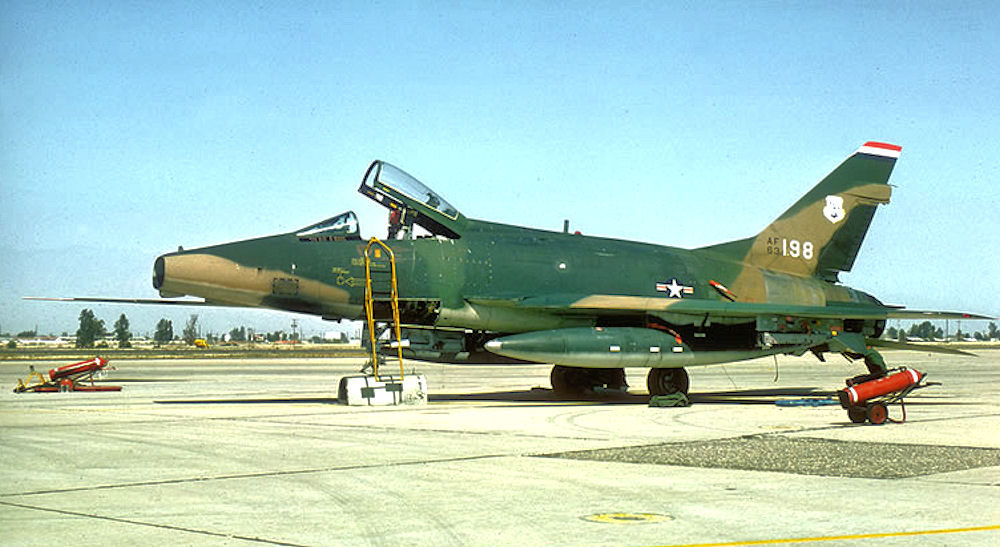 113th Tactical Fighter Squadron - North American F-100D-75-NA Super Sabre 56-3198 in Vietnam War camouflage livery. Retired to MASDC Jul 9, 1979 as FE0558. Later converted to QF-100D target drone and expended.